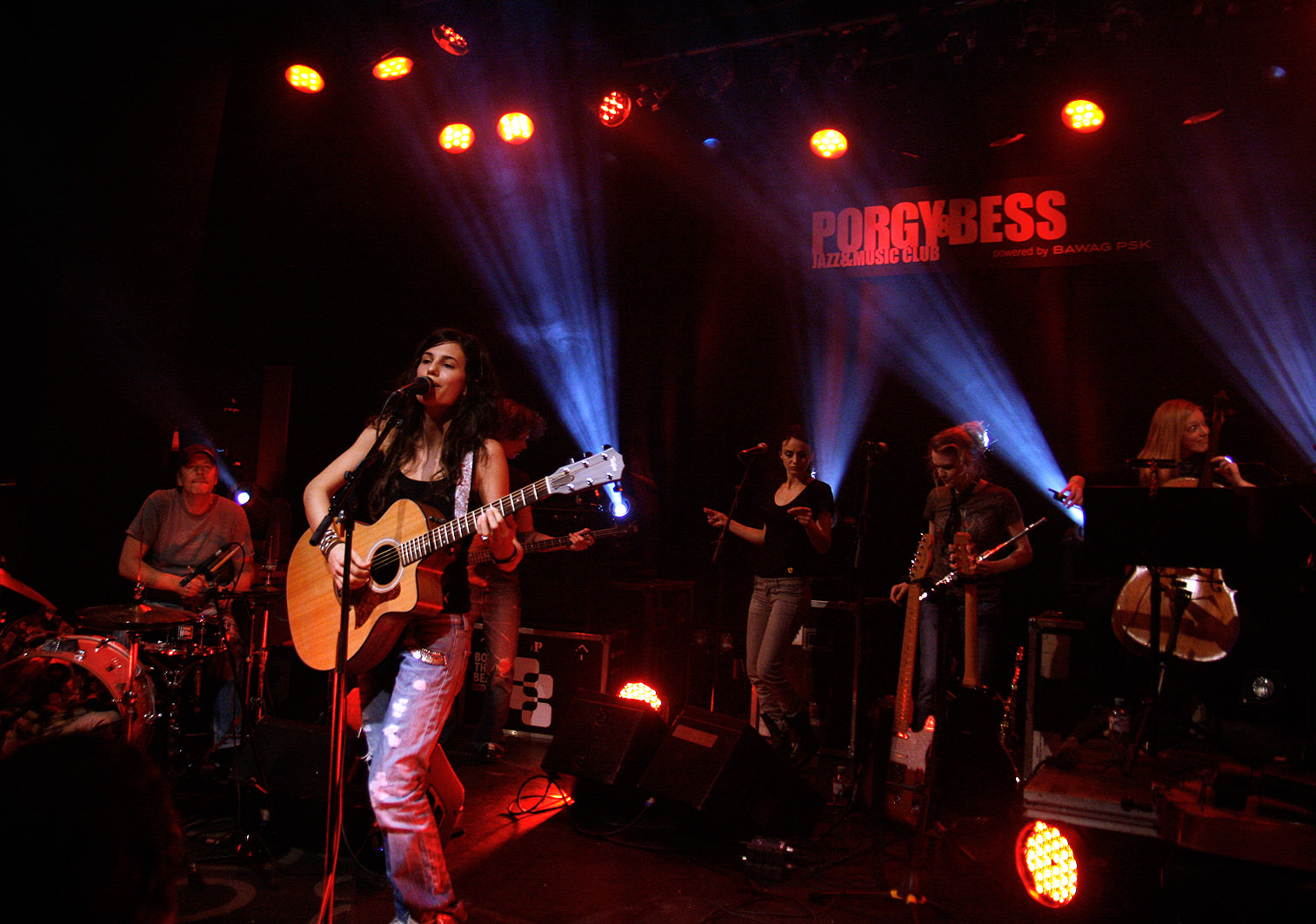 Anna F. - release-party and -concert for the record album "...for real" at the jazz club Porgy & Bess in Vienna